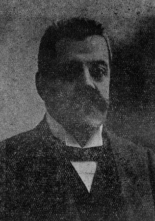 Konstantinos Diovouniotis (1872-1943): Greek theologian and university professor